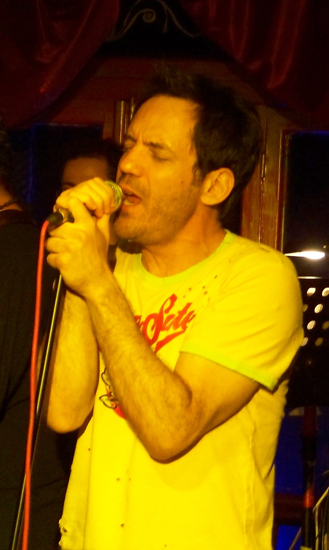 Greek singer Thanos Kalliris performing live in 2009.